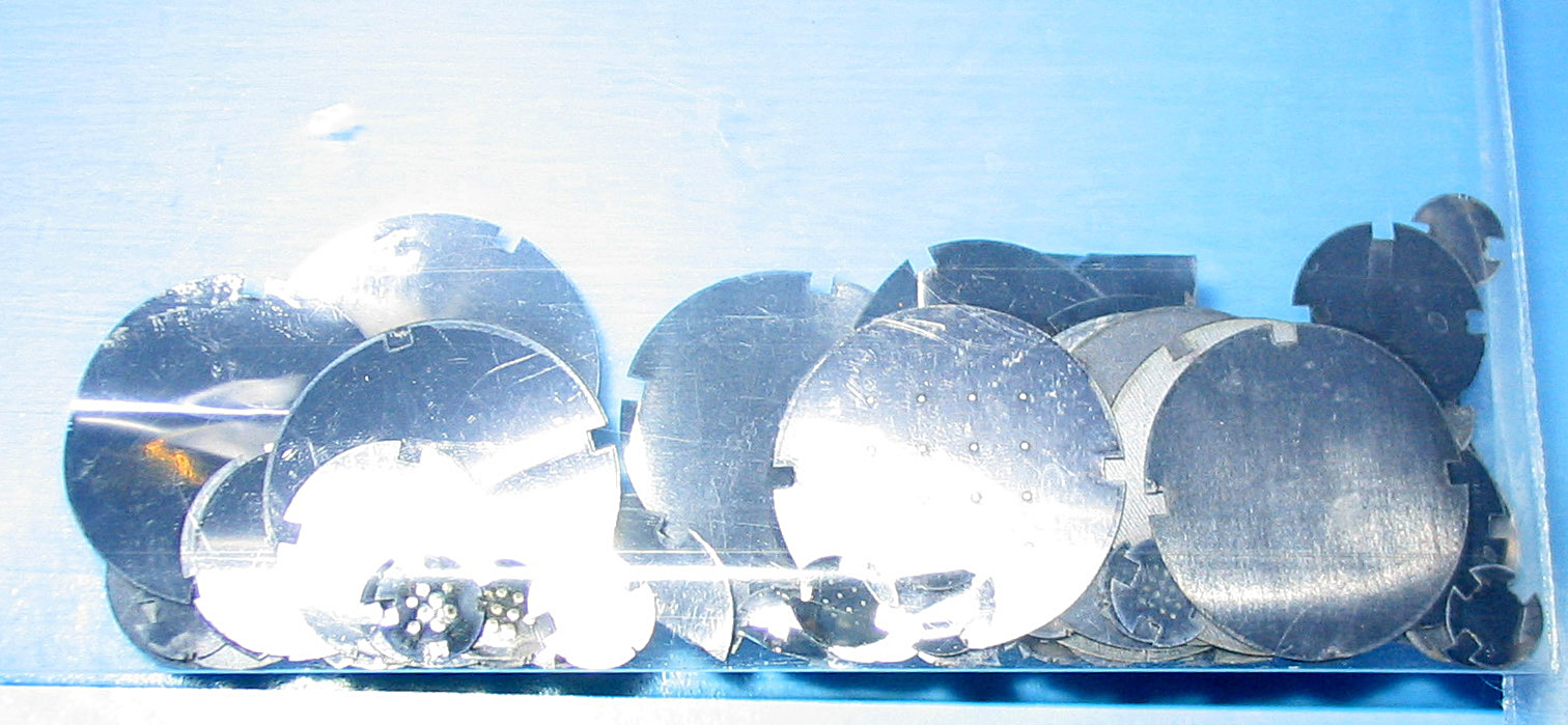 Small circular beryllium foils in a plastic bag, blue background. Unsharp mask and autocontrast applied in photoshop.